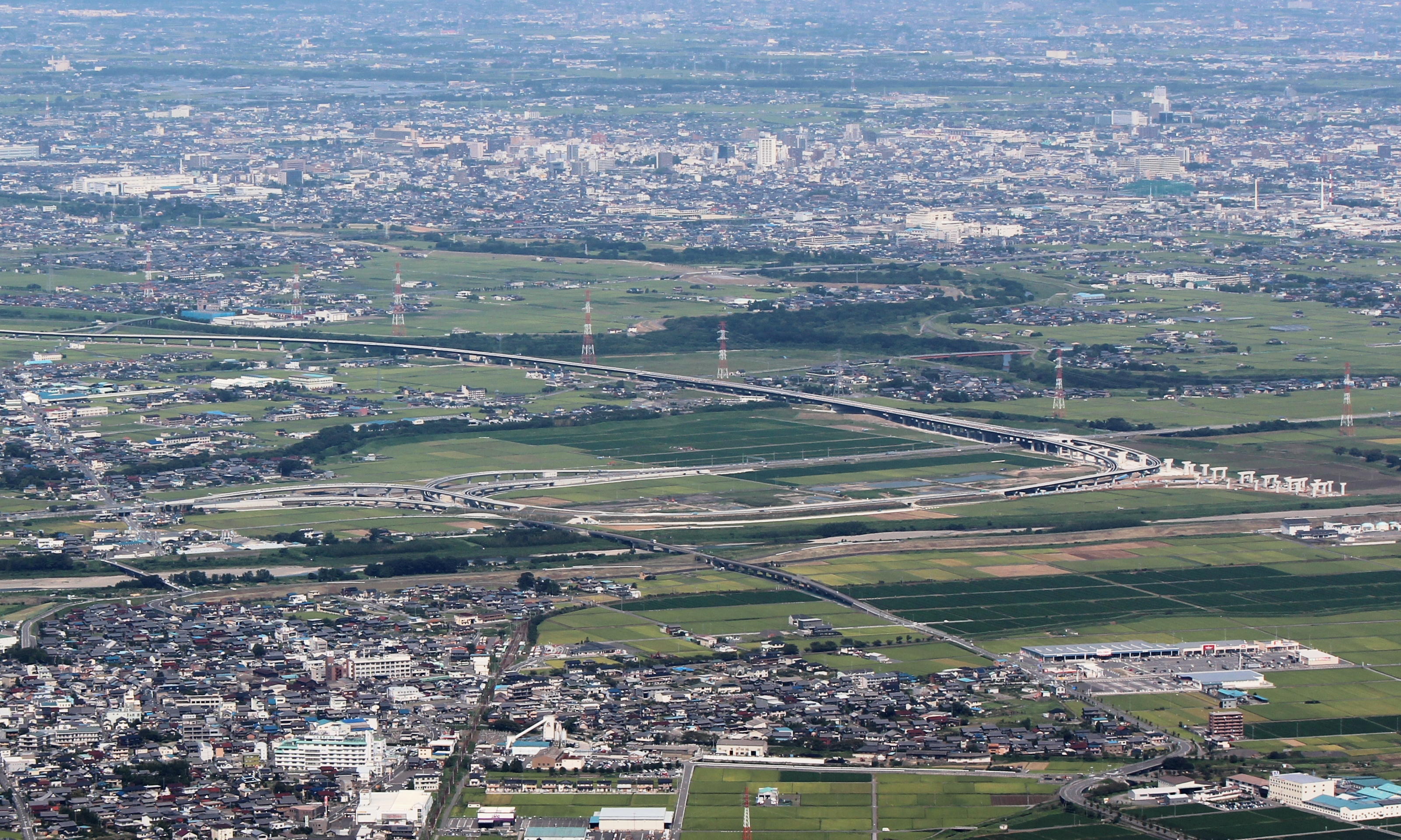 Yoro JCT seen from Mount Yōrō